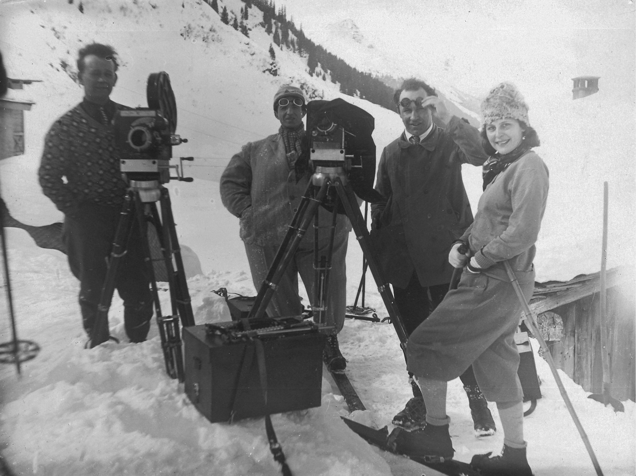 Kurt Neubert (1900–1970), Hans Schneeberger (1895–1970), Arnold Fanck (1889–1974) and Leni Riefenstahl (1902–2003) on the set for the silent film The Great Leap (UFA). The shooting took place in the Dolomites from May to November 1927. The winter and ski scenes were recorded in the Arlberg area near Stuben and Zürs in Austria. The film cameras were the very first single-lens reflex cameras worldwide, Lyta, on demand of Fanck in 1925/26 developed by Lytax-Werke of Apparatebau Freiburg G.m.b.H in Freiburg im Breisgau, Germany.